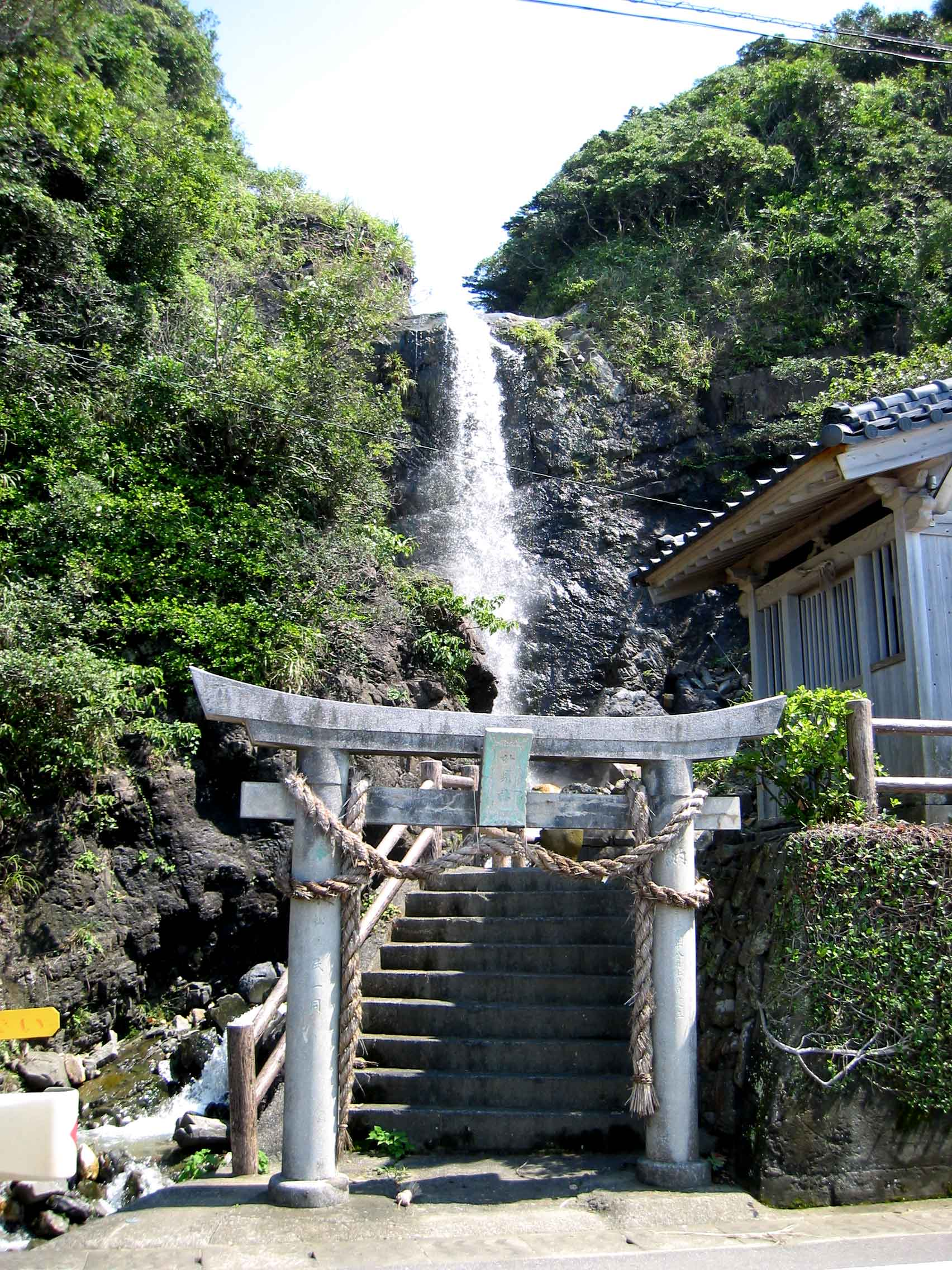 妙見の滝 = Waterfall of Myouken =